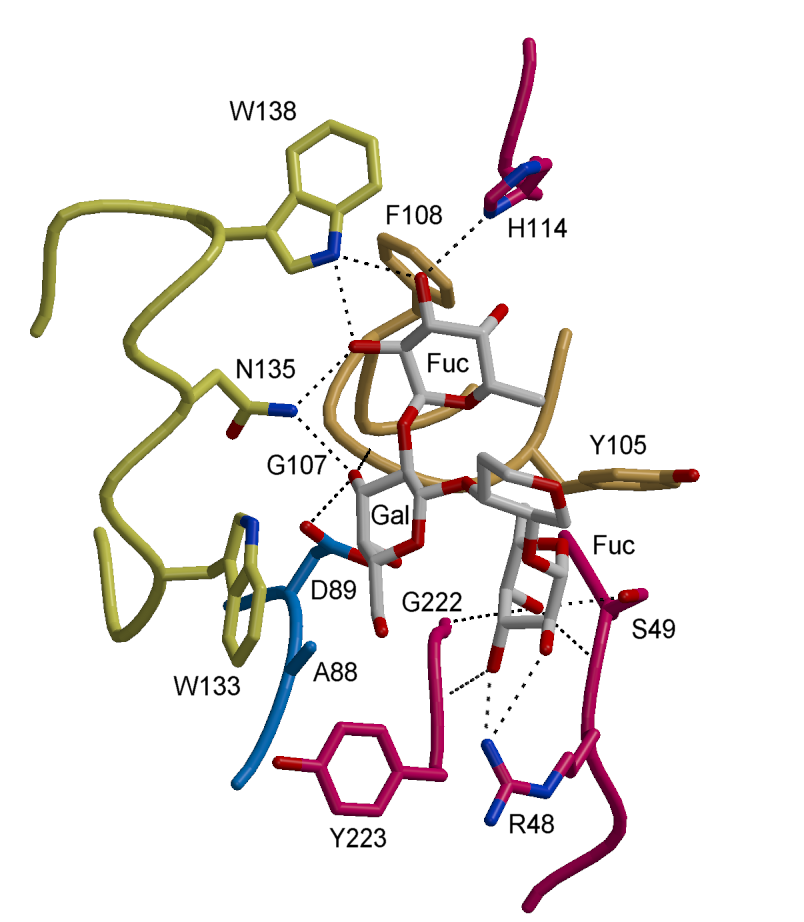 Made using PyMol.